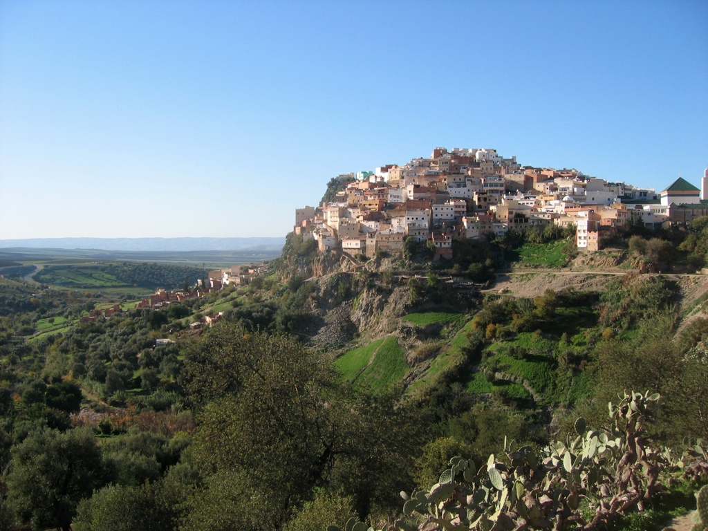 The town of Moulay Driss Zerhoun in Morocco